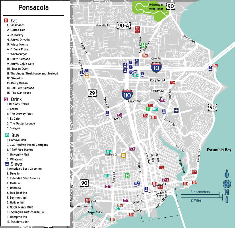 PNG version of :Image:Map-USA-Pensacola.svg, based on OpenStreetMap. map: Pensacola